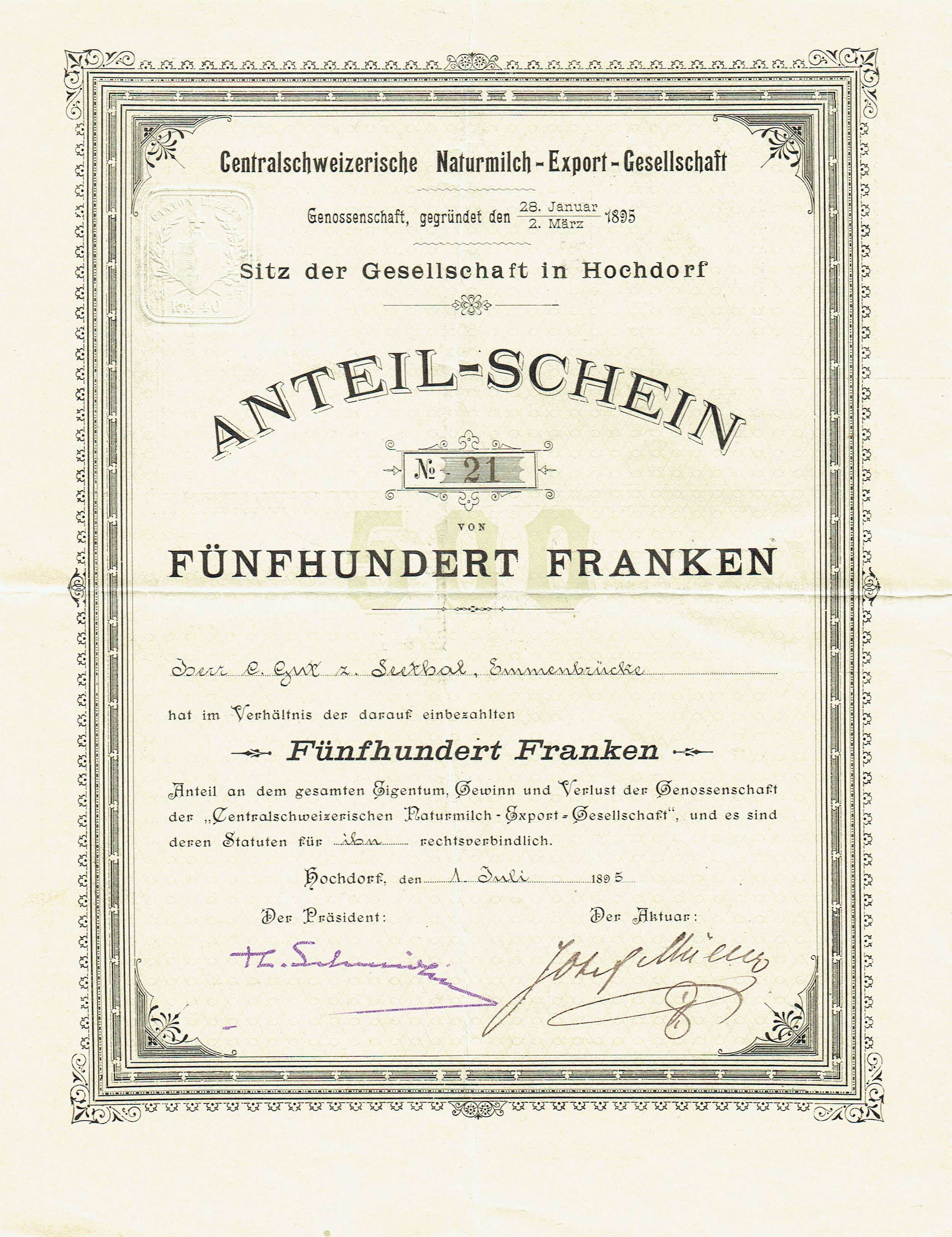 Share certificate of the Centralschweizerische Naturmilch-Exportgesellschaft AG, issued 1. July 1895